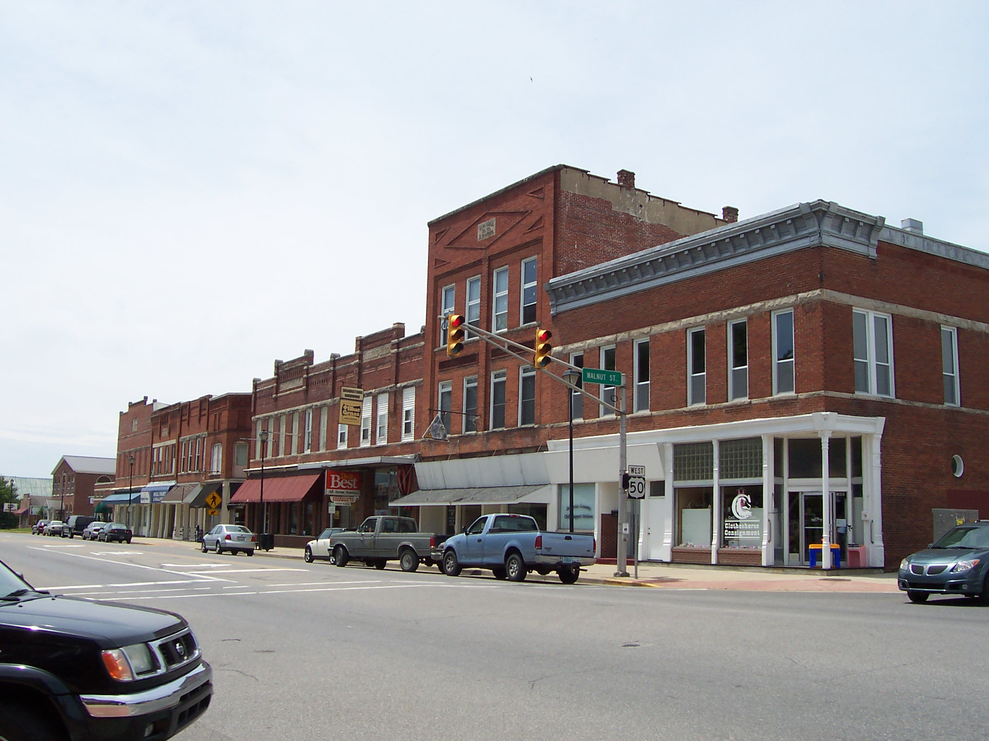 Brownstown Historic Mainstreet Storefronts